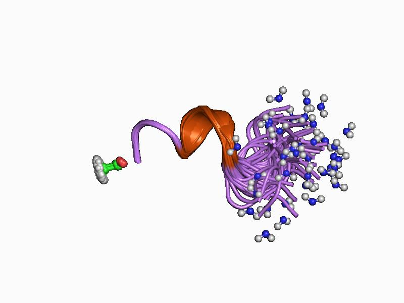 Cartoon representation of the molecular structure of protein registered with 1cb3 code.